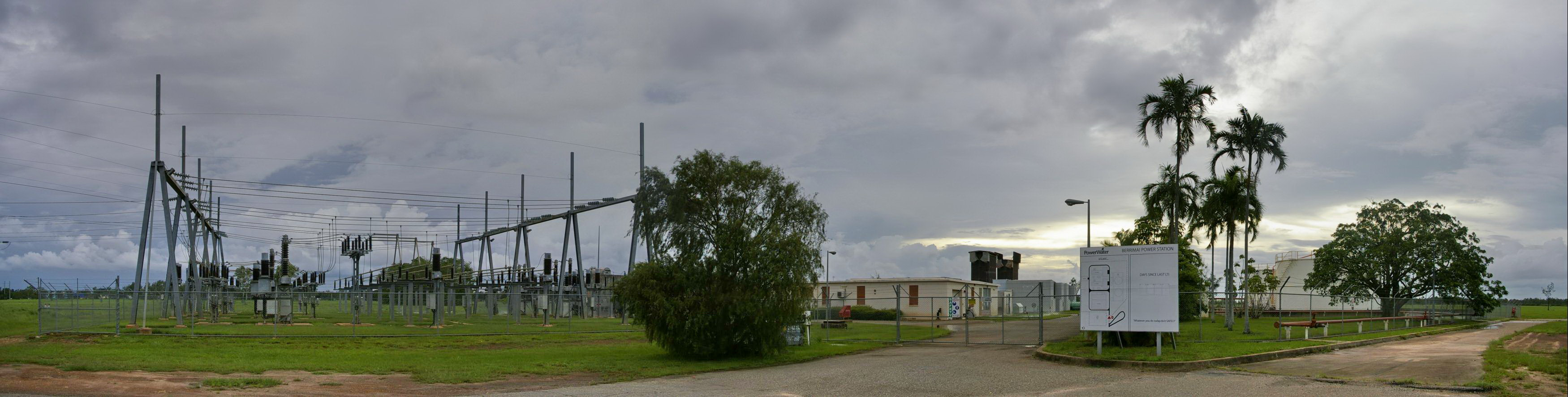 Berrimah Power Station, Northern Territory